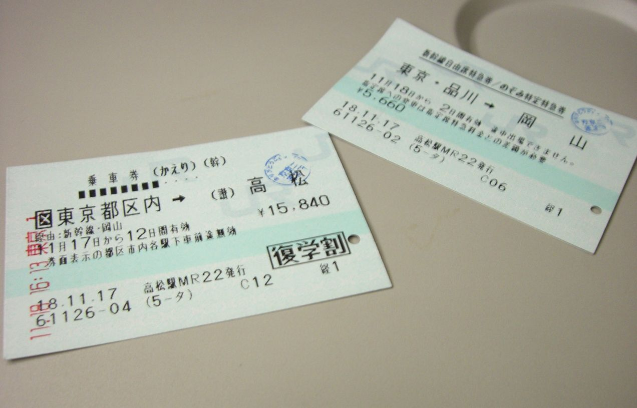 Japanese Train Ticket (Shinkansen Ticket) (Used ticket) (Expiration ticket)